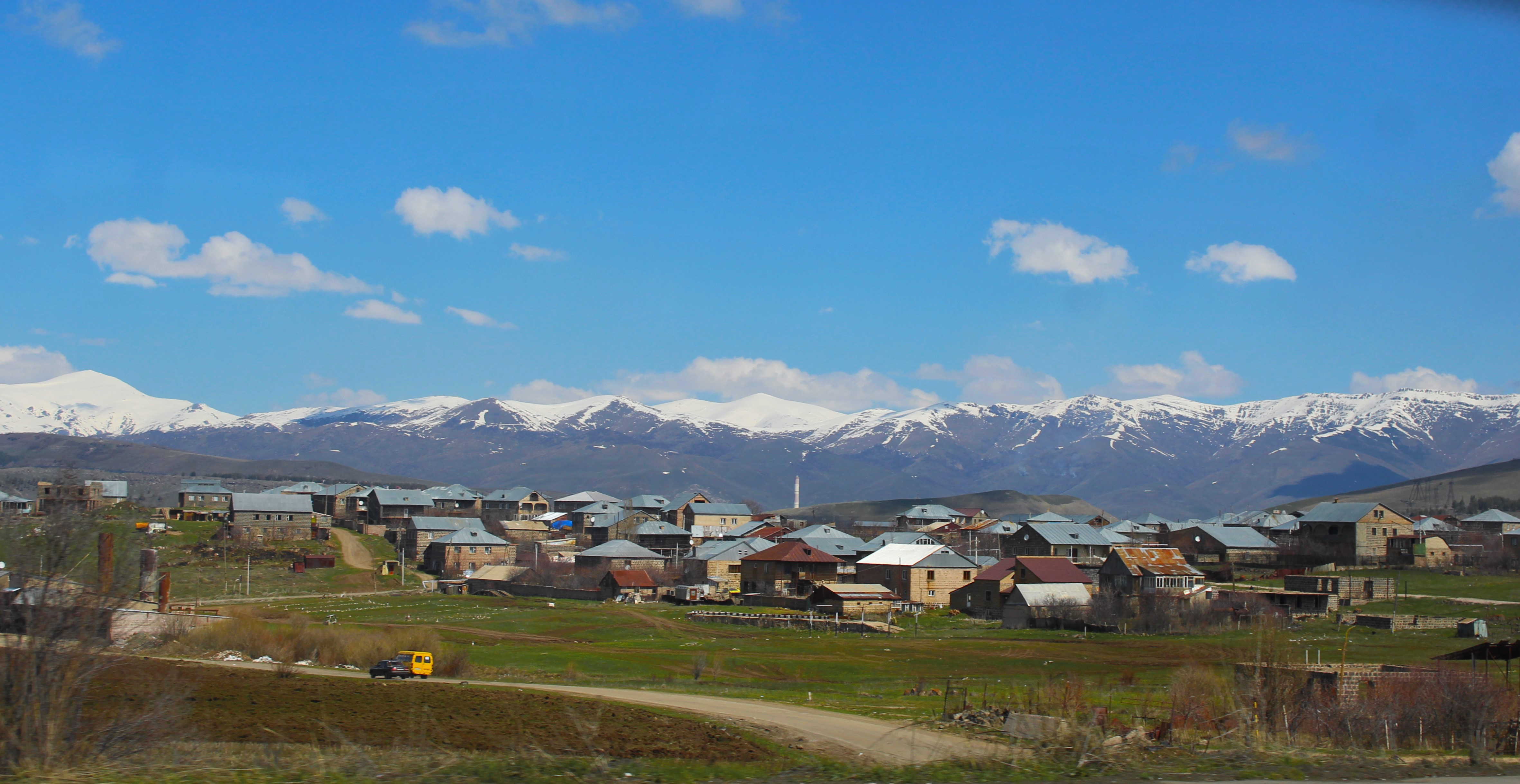 View of Kaghsi from road M4